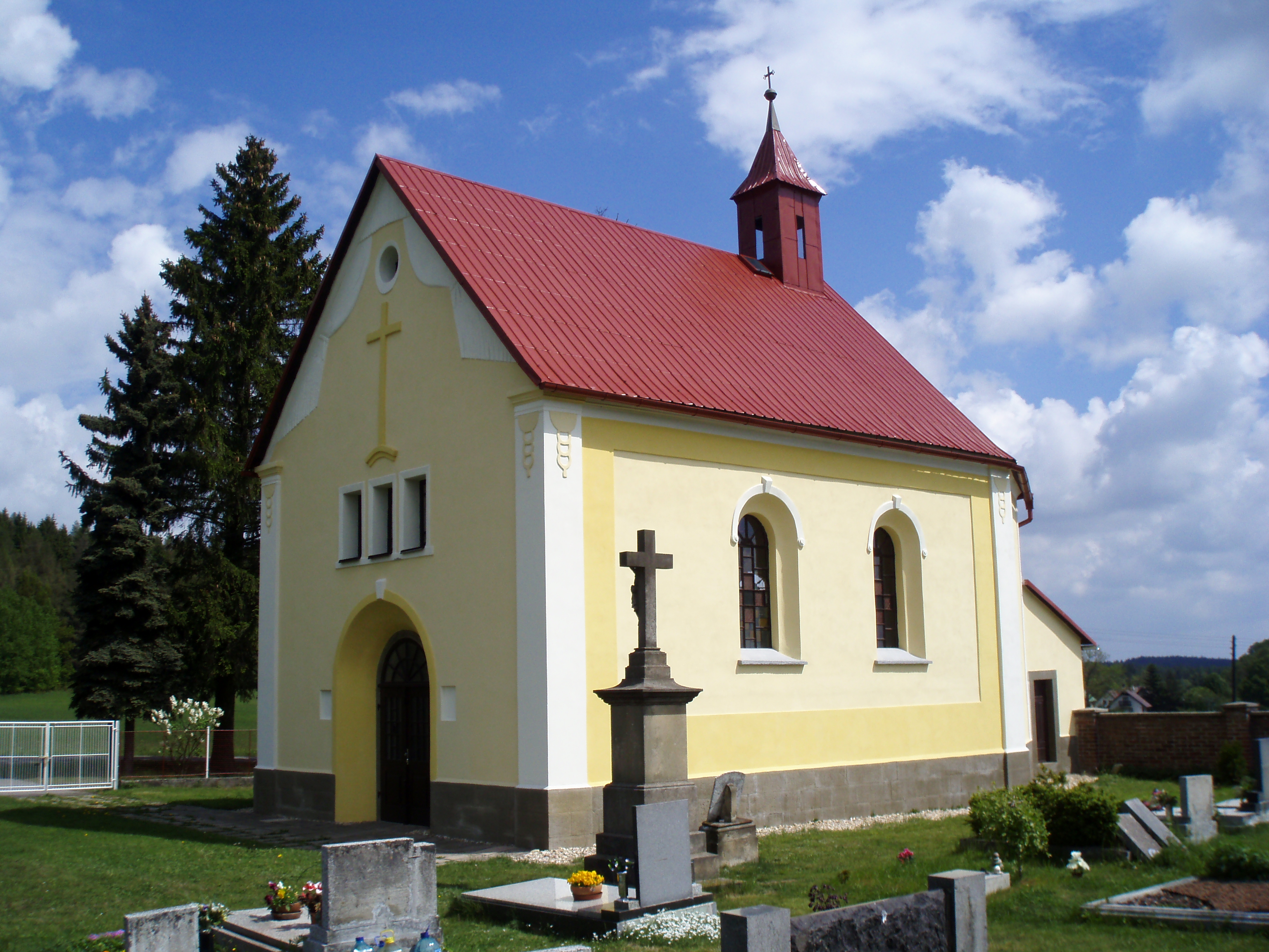 Cemetery Chapel of St. Joseph in Proruby (Brzice, Czechia)